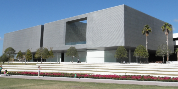 Tampa Museum of Art, south side facing Curtis Hixon Park